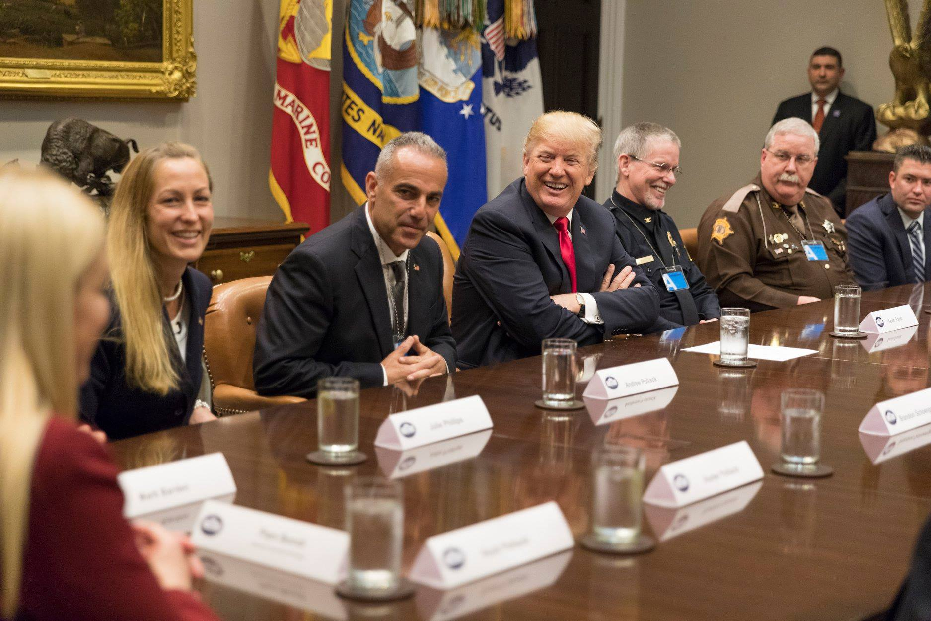 Andrew Pollack, his wife and others meeting with President Trump discussing school safety measures.